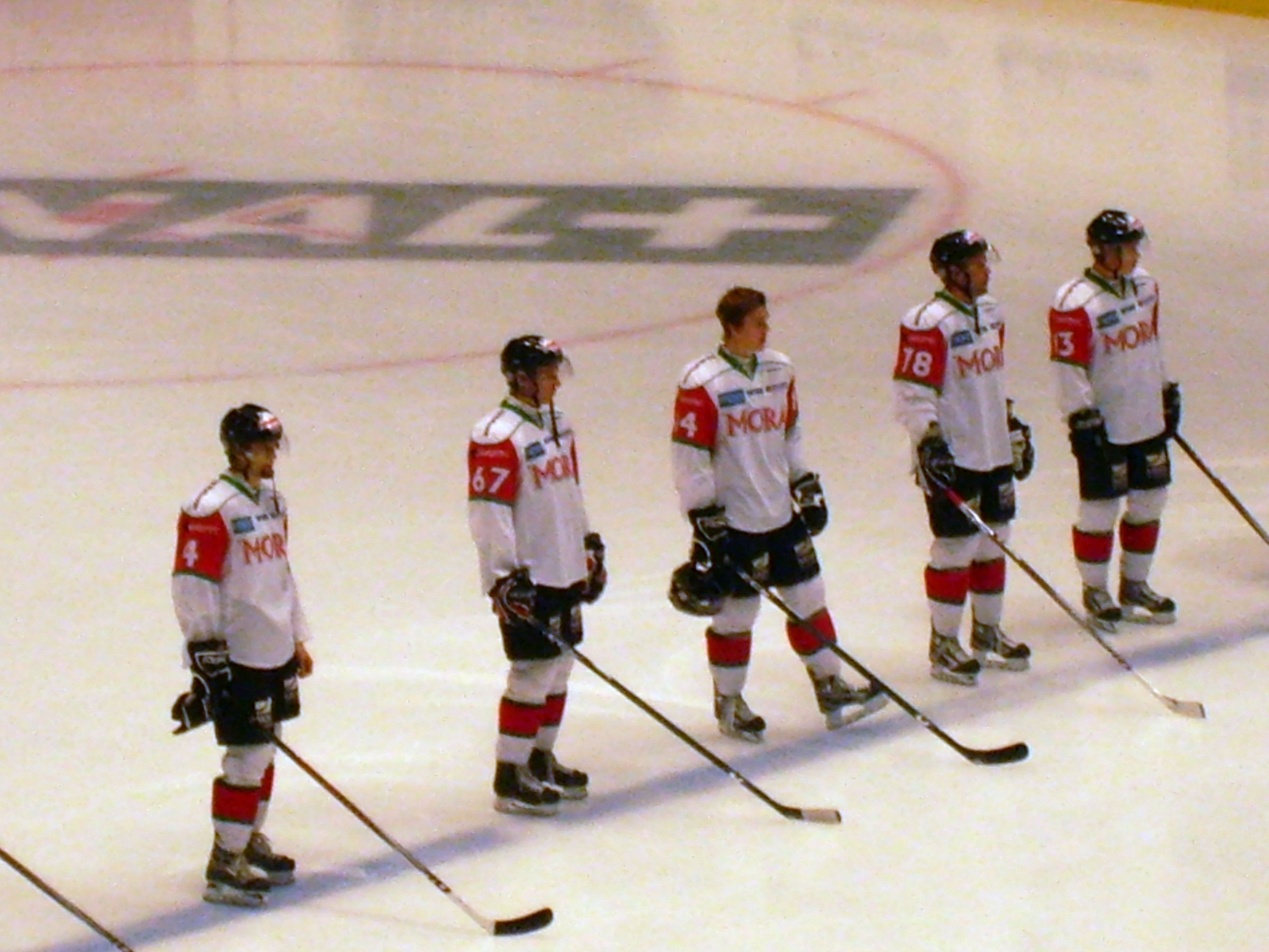 Ice hockey players from Mora IK, Sweden.